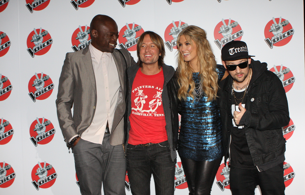 The Voice news media report; Hordern Pavilion, Moore Park, Sydney, Australia